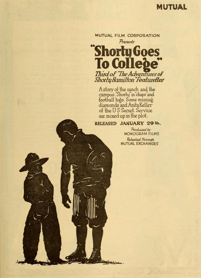 Advertisement in Moving Picture World